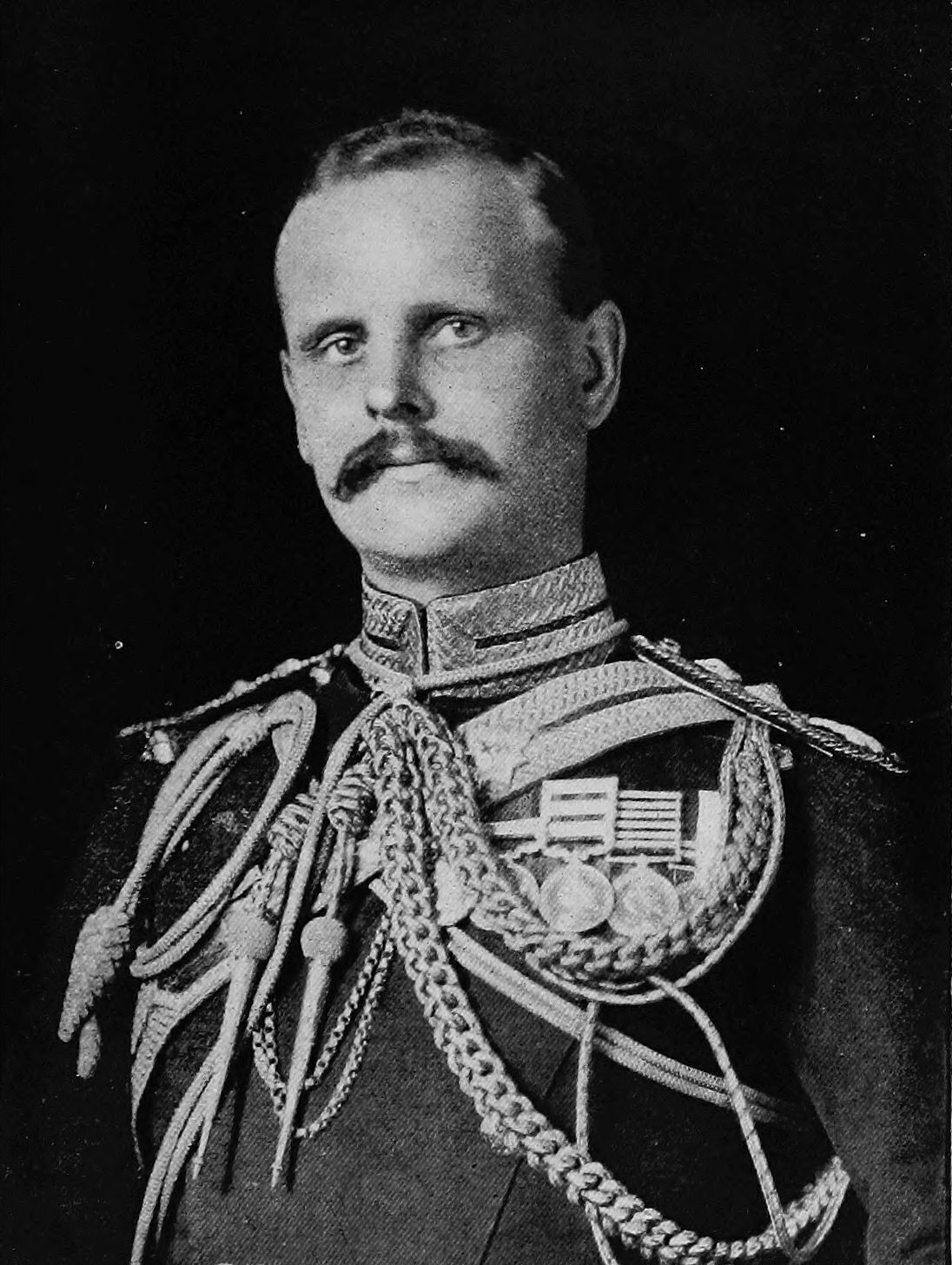 General Sir W. R. Birdwood, G.C.M.G., K.C.B. from Gallipoli Diary, Vol. 2 by Sir Ian Hamilton.